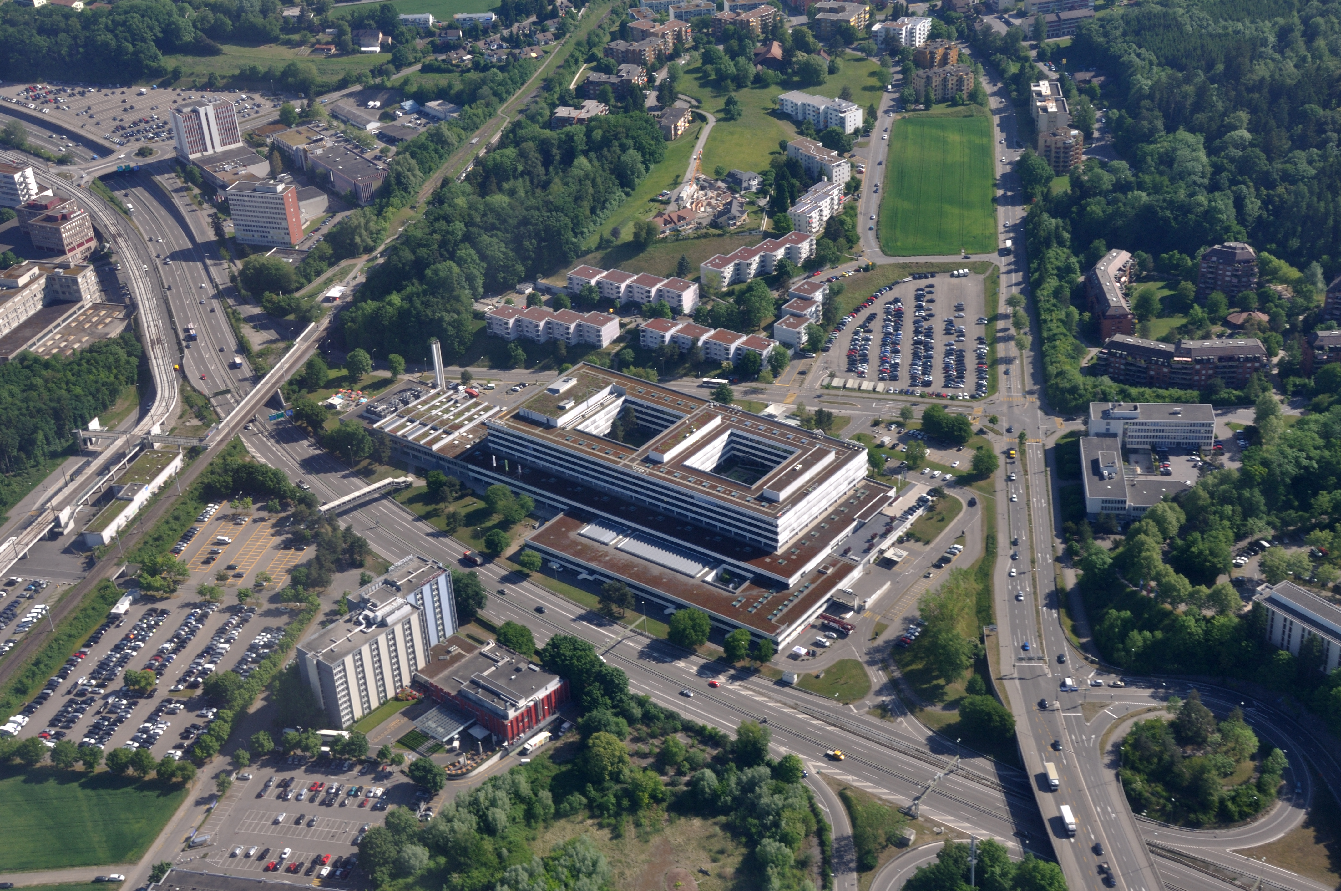 Switzerland, Canton of Zürich, headquarters of Swiss International Airlines in Kloten while climbing out from runway 16. Kloten Balsberg railway and tram station can be seen to the left of the picture.